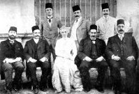 Staff of Egyptian University in 1911 Seated from right: Hefni Nasif Bic, Saber Sabry Pasha, Miss Couvreur, Ismail Hassanien Pasha, Mr. Nallino Standing from right: Mr. Albert Bovelli, Mr. Sisson and professor of English literature